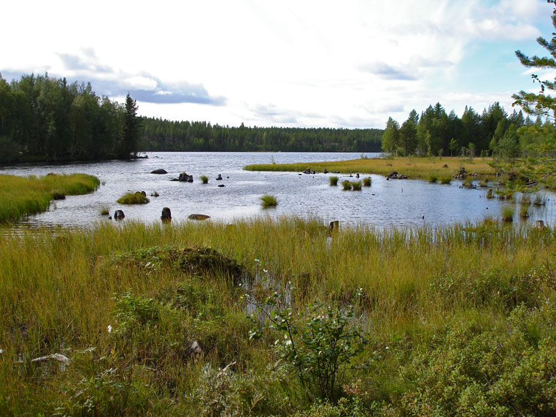 The river Umeälven near Rusele in Lycksele municipality, Sweden. This part of the river is dammed by Rusfors power station.